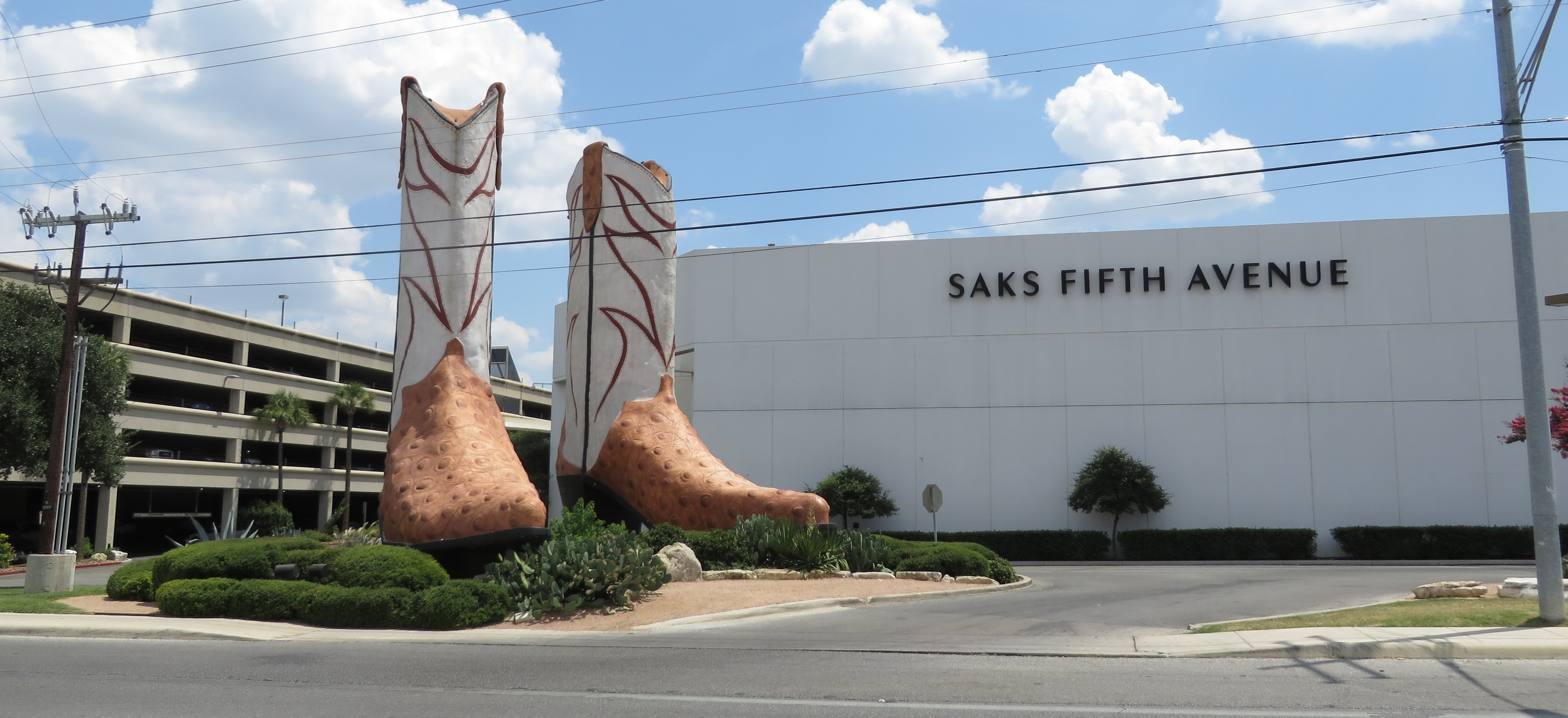 Big cowboy boots located on I-410 Access Road (East) at the north entrance of the North Star Mall, 7400 San Pedro Avenue, San Antonio, Texas.